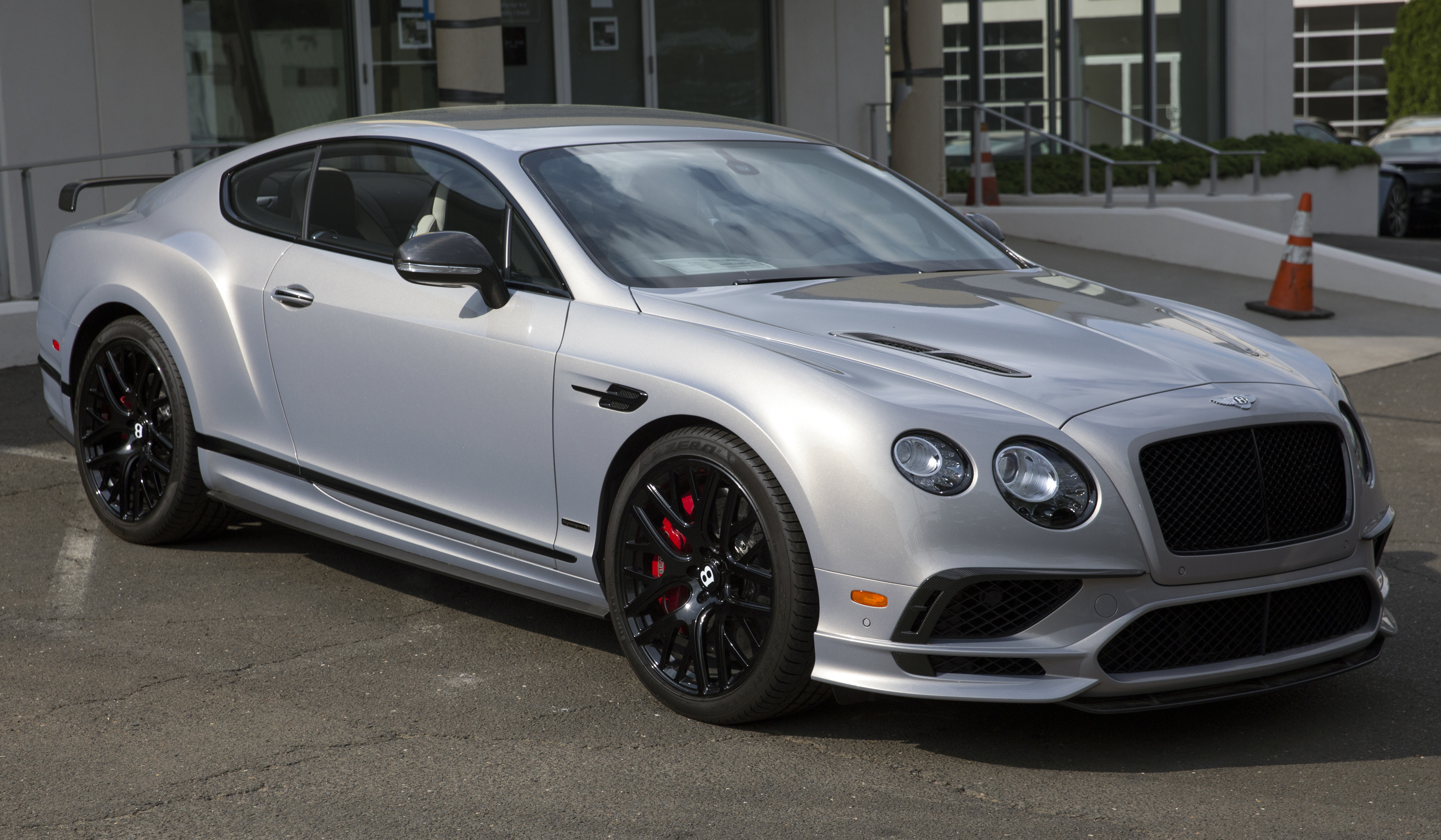 A 2017 Bentley Continental Supersports Coupé. Only 710 of these 2.3-tonne behemoths were built. 710PS Volkswagen W12, hence the production number. US window stickers requires parts content to be posted: 58% German, 20% English. Transmission is German, too. This car is painted Extreme Silver with Beluga (=black) interior. The titanium exhaust alone is a $7,870 extra.